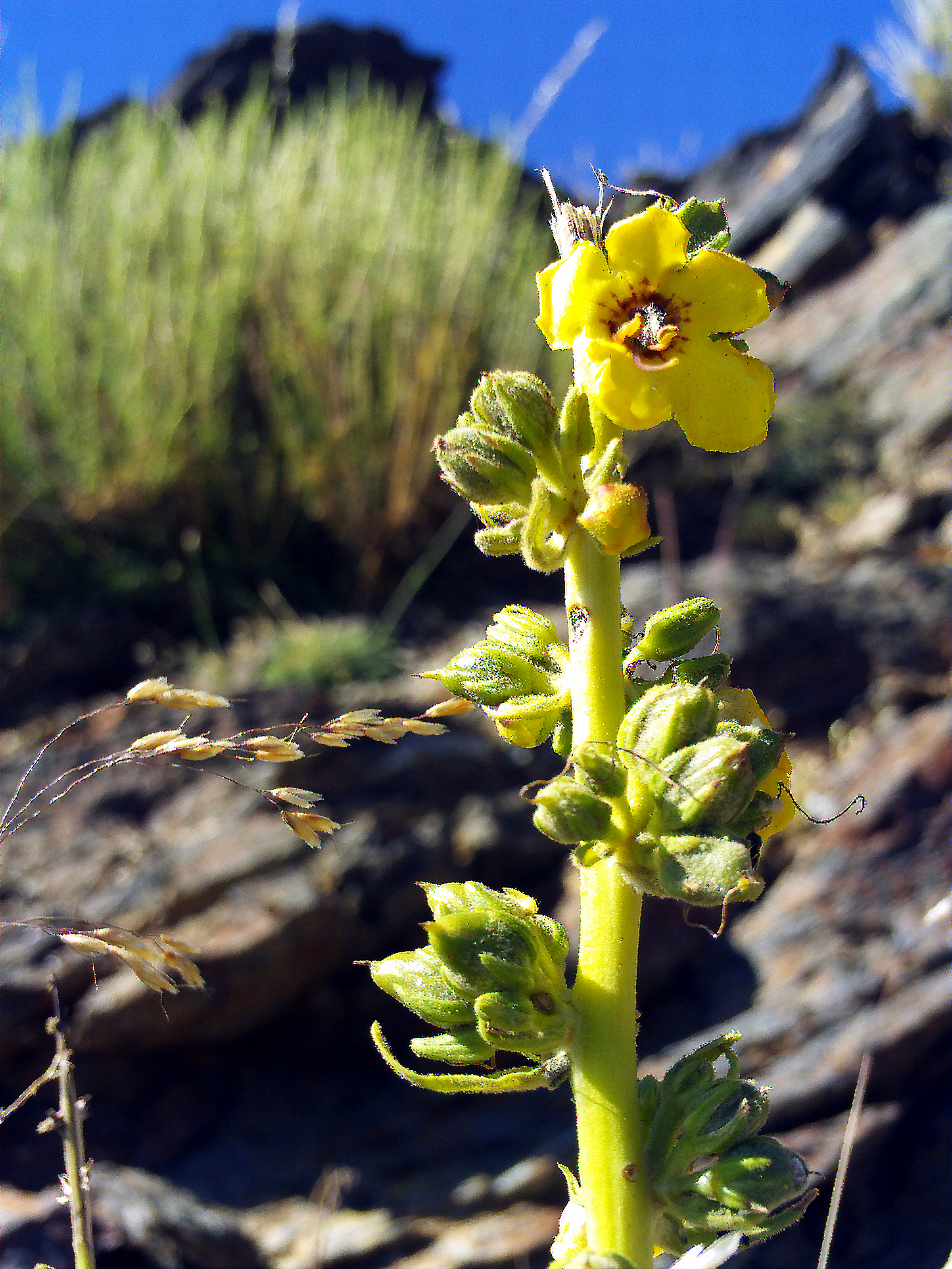 Verbascum nevadense flowers close up, Sierra Nevada, Spain